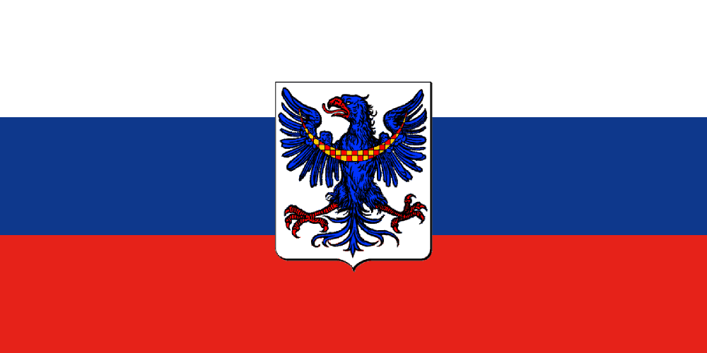 The flag of the Duchy of Carniola, in use from 1848 to 1918 and briefly during World War II.